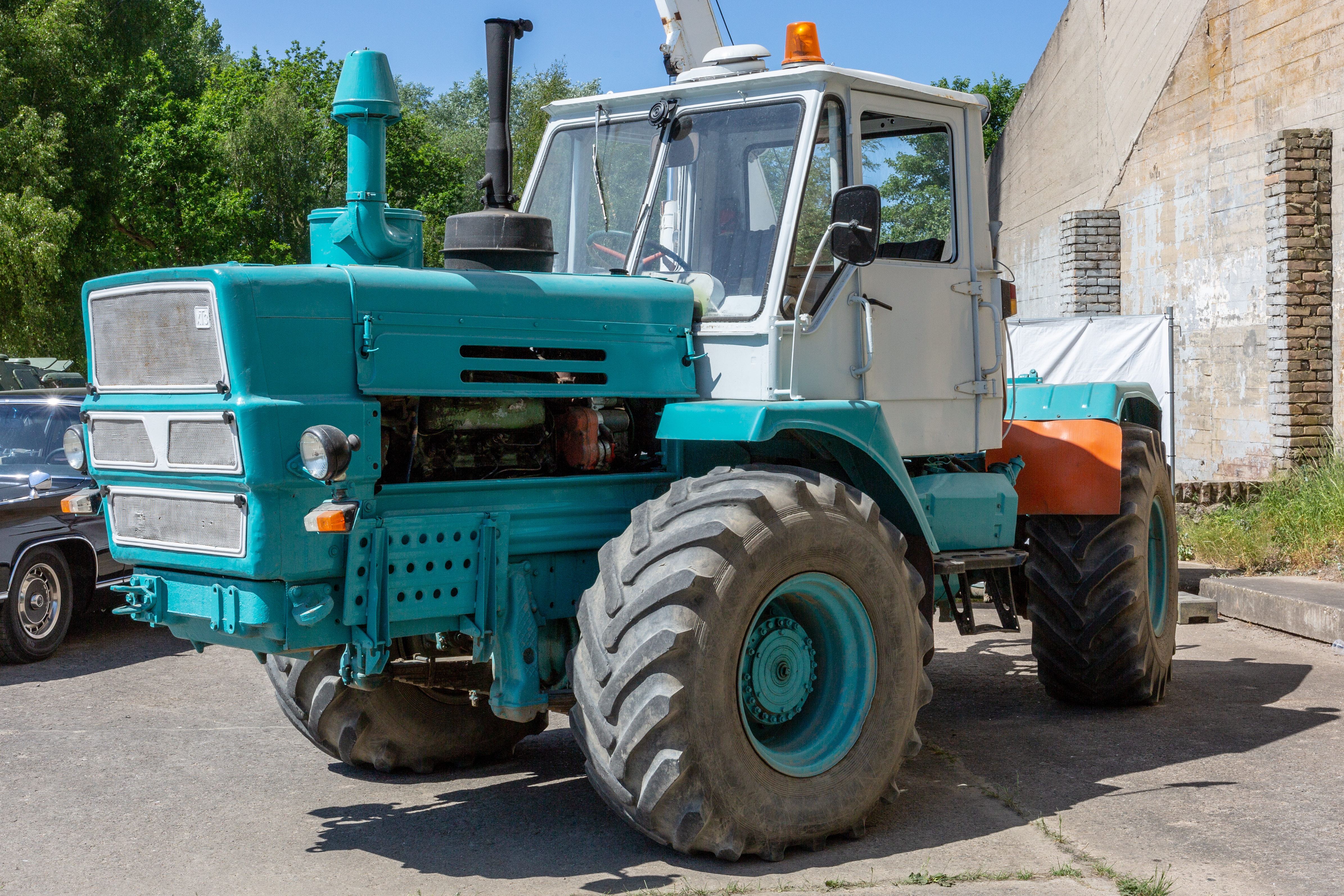 Pfingsttreffen Pütnitz 2018